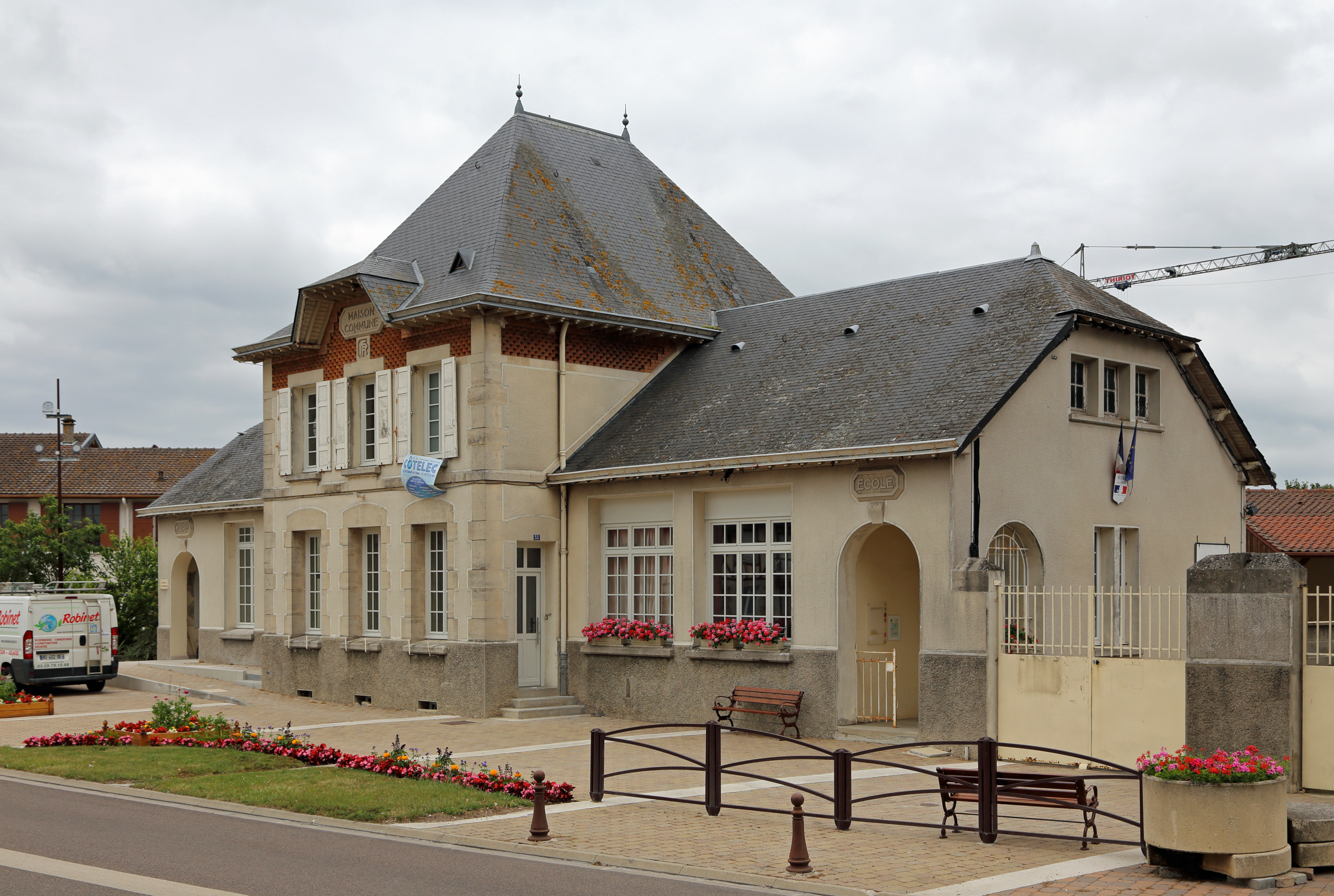 L'Épine (Marne department, France): town hall